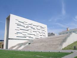 Campus de Campolide